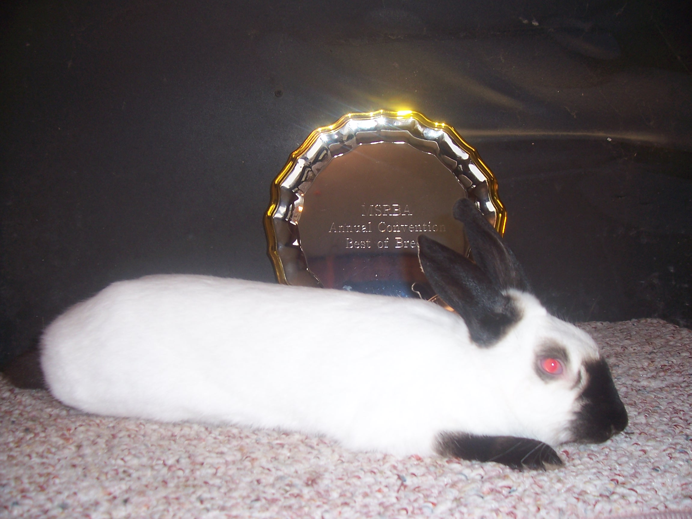 A grand champion Himalayan with her trophy, bred by Bluewood Bunnies, shown by Liberty Acres Rabbitry, picture by Liberty Acres Rabbitry.